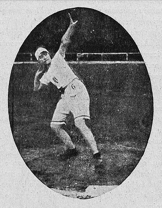 Stefania Ditczuk w rzucie kulą podczas MP 1923.